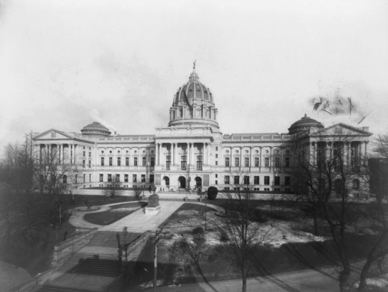 Facade of State Capitol, Harrisburg, Pennsylvania